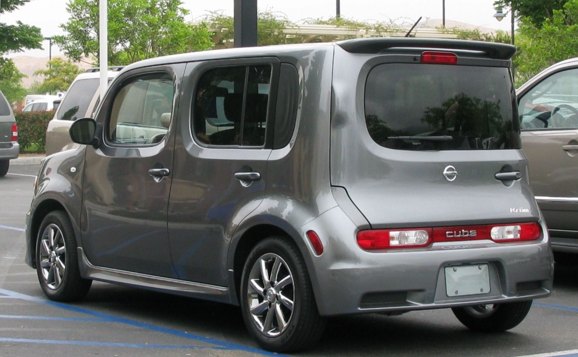 NISSAN cube Krōm